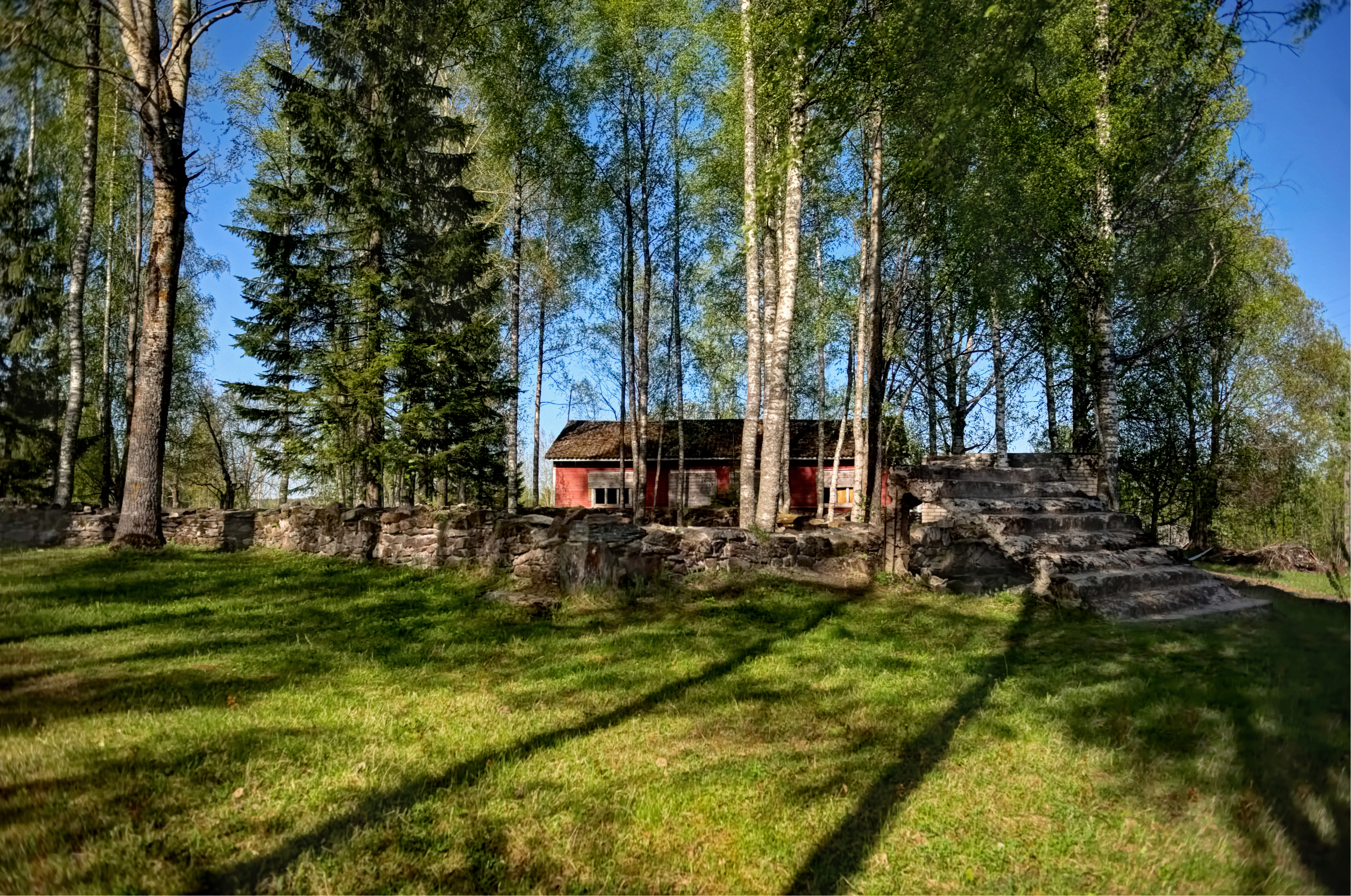 Ruskeala Church 1940